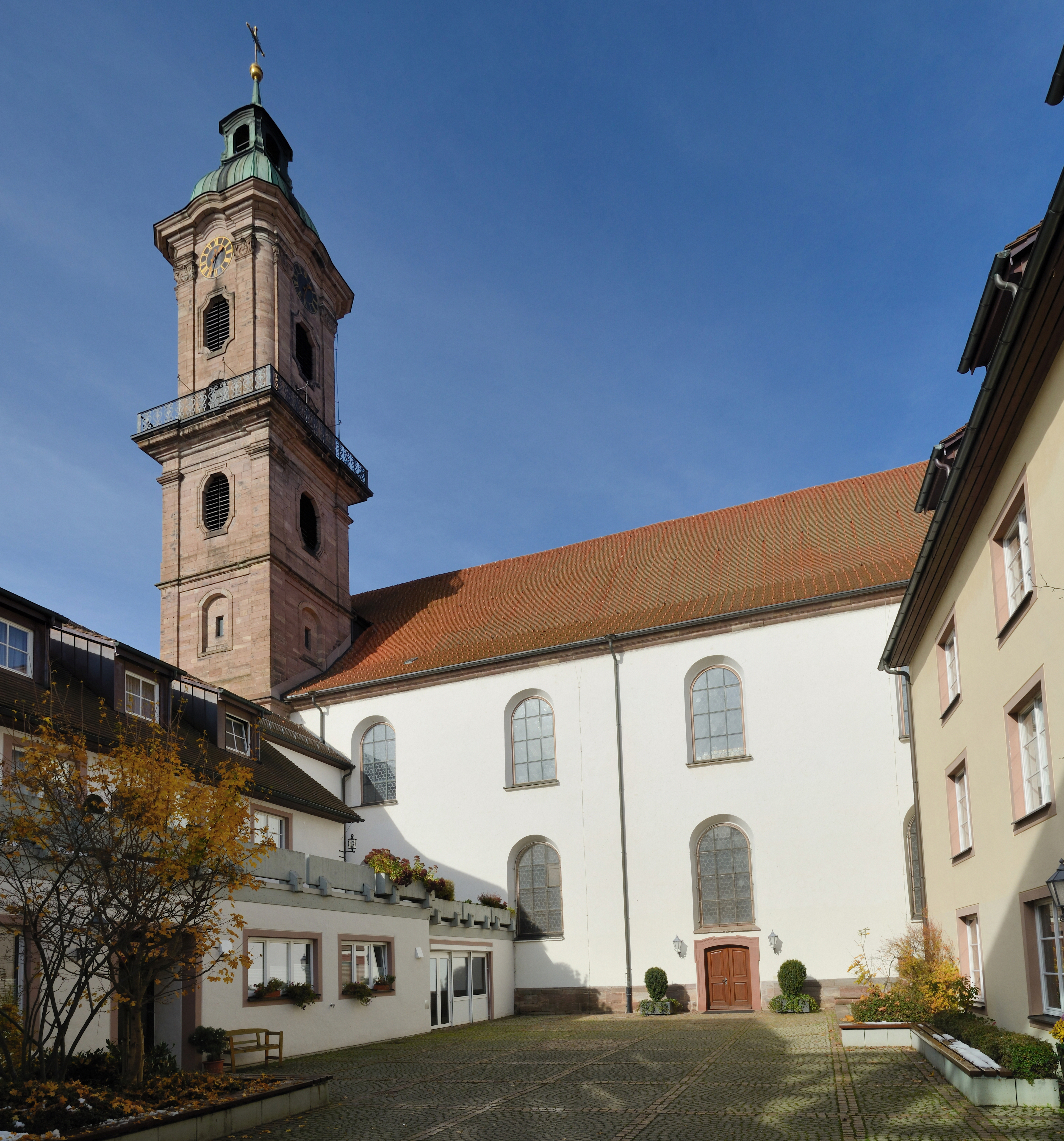 Villingen: Benedictine Church